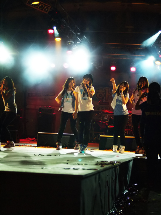 From left to right: Seungyeon, Gyuri, Nicole, Jiyoung, and Hara.